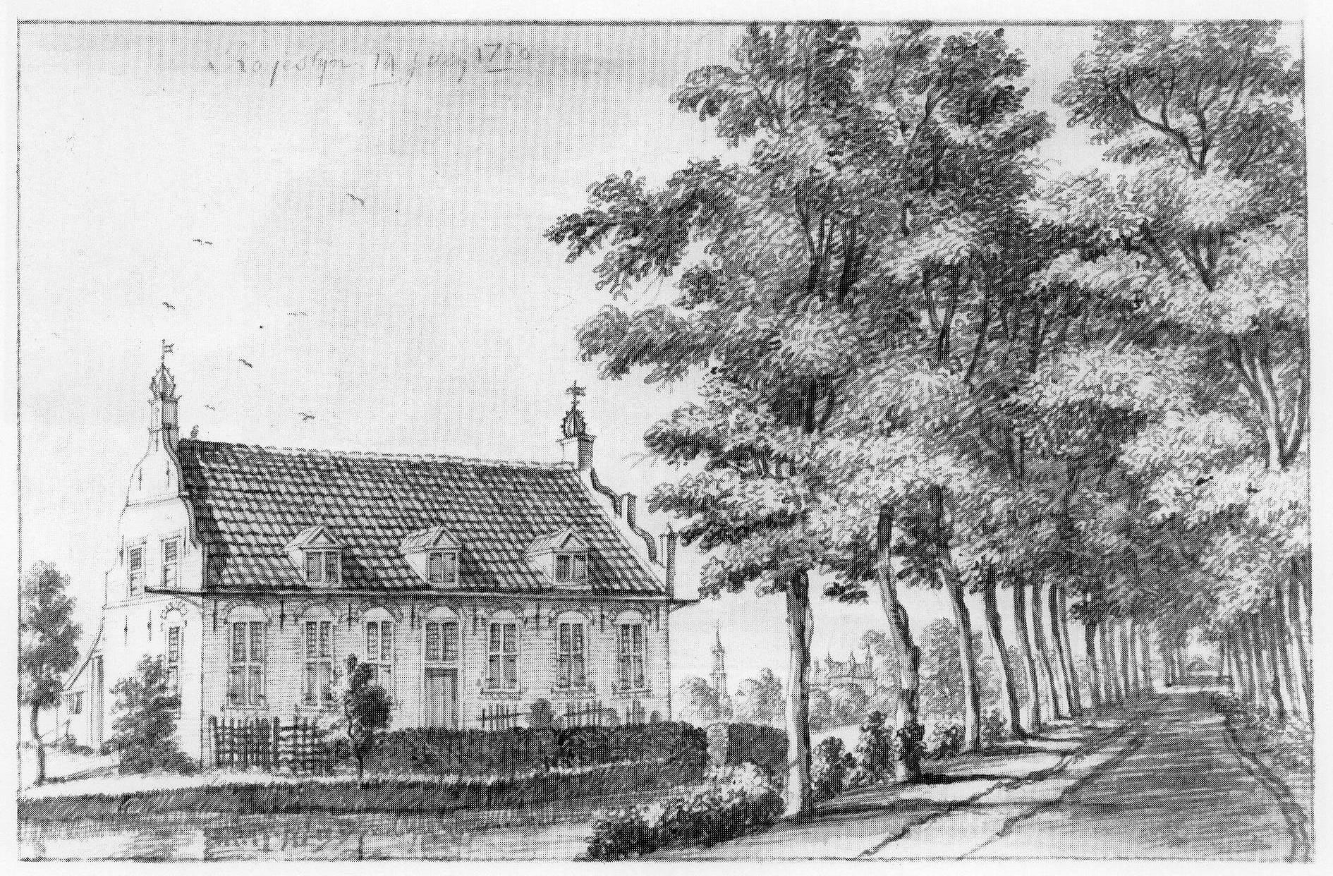 Royestein near Amerongen